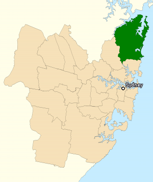 Incorporates or developed using Administrative Boundaries ©PSMA Australia Limited licensed by the Commonwealth of Australia under Creative Commons Attribution 4.0 International licence (CC BY 4.0). Derived from State and Territory Boundaries from the Australian Bureau of Statistics under Creative Commons Attribution 2.5 Australia license (CC BY 2.5 AU)